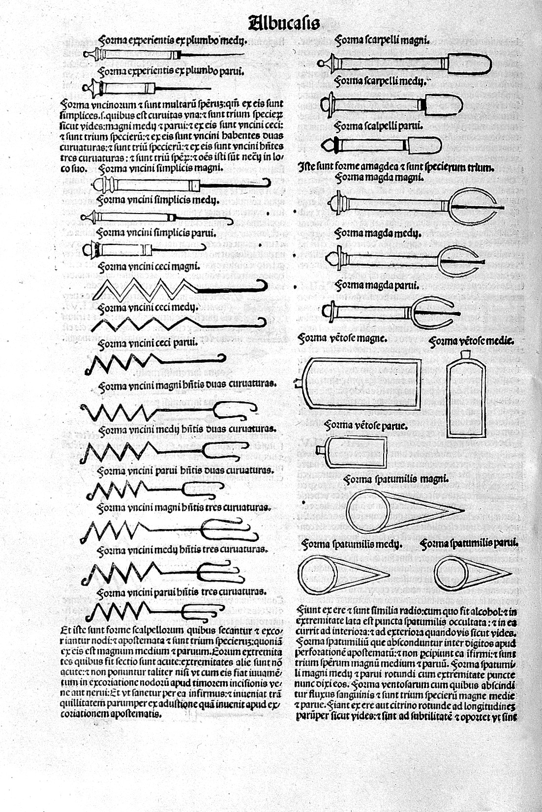 Surgical instruments; anon, after designs originally drawn by Abulcasis (circa 1000) Rare Books Keywords: surgery, instruments and appuratus: 1500; Guy de Chauliac; Abulcasis; Abulcasis